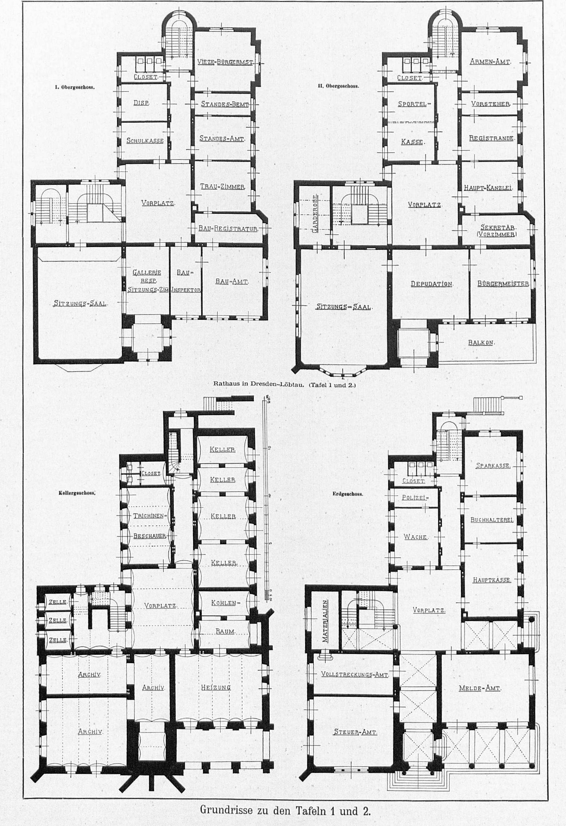 Rathaus_in_Dresden-Löbtau_Grundriss.jpg